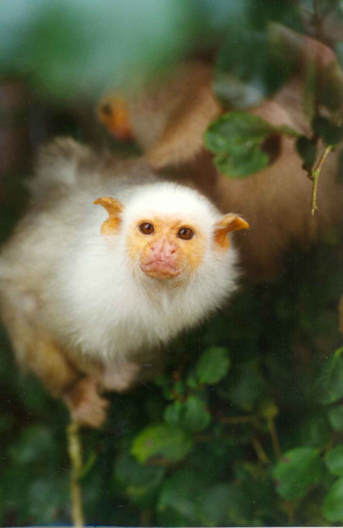 silver marmorset